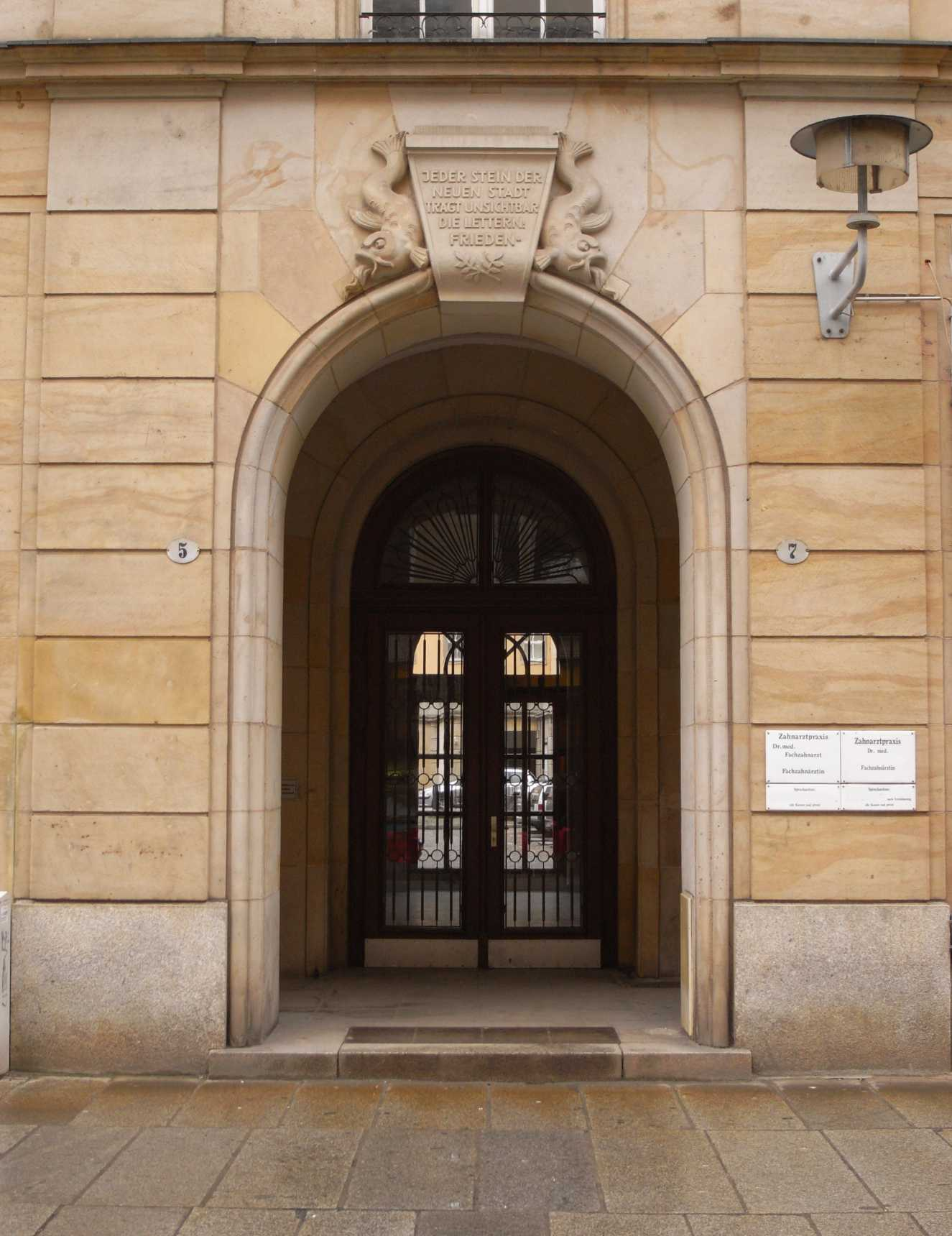 Portal, Dresden, address: Weisse Gasse (built 1956-58)